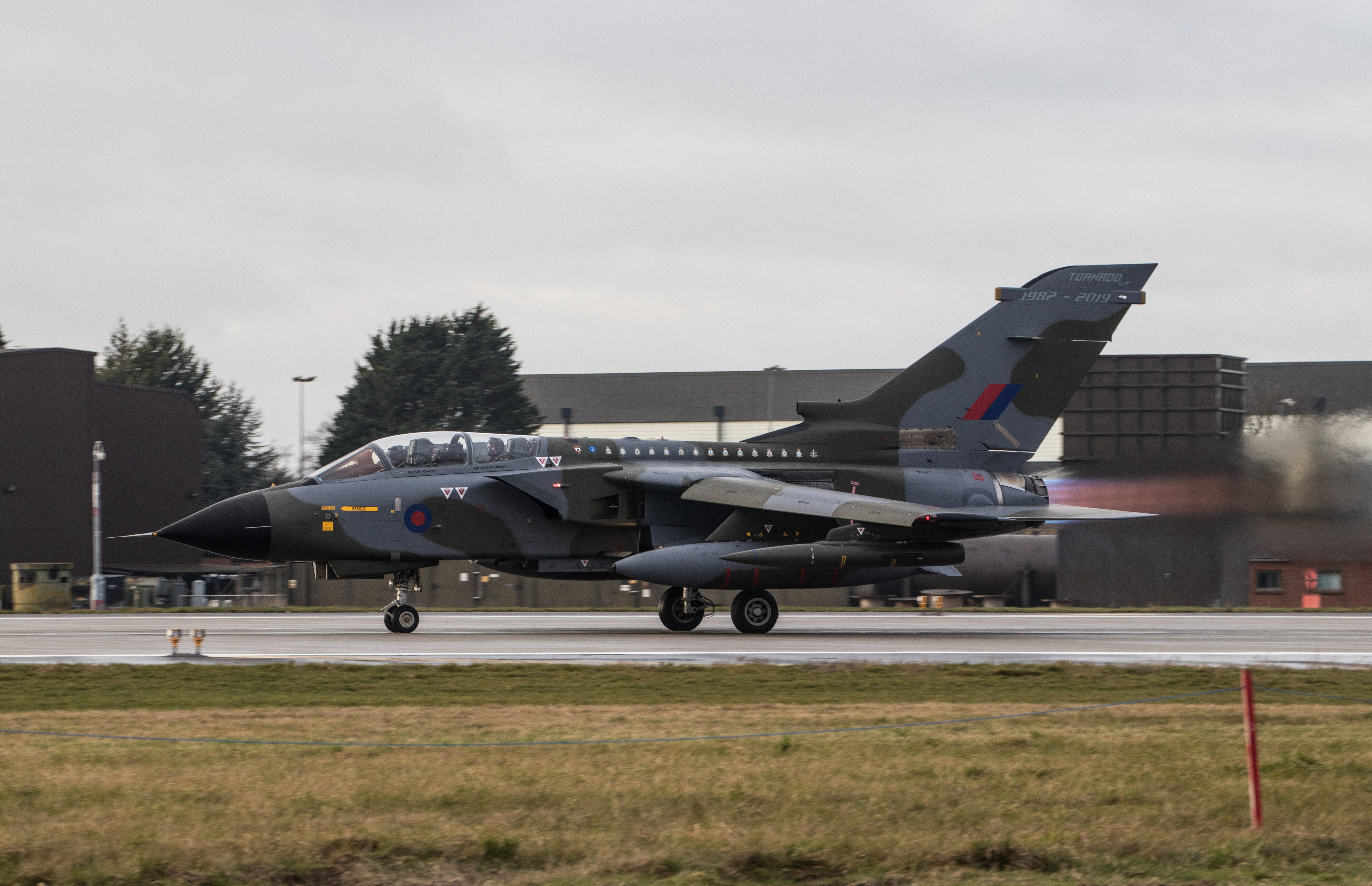 Tornado Farewell Enthusiasts Day, RAF Marham, Norfolk